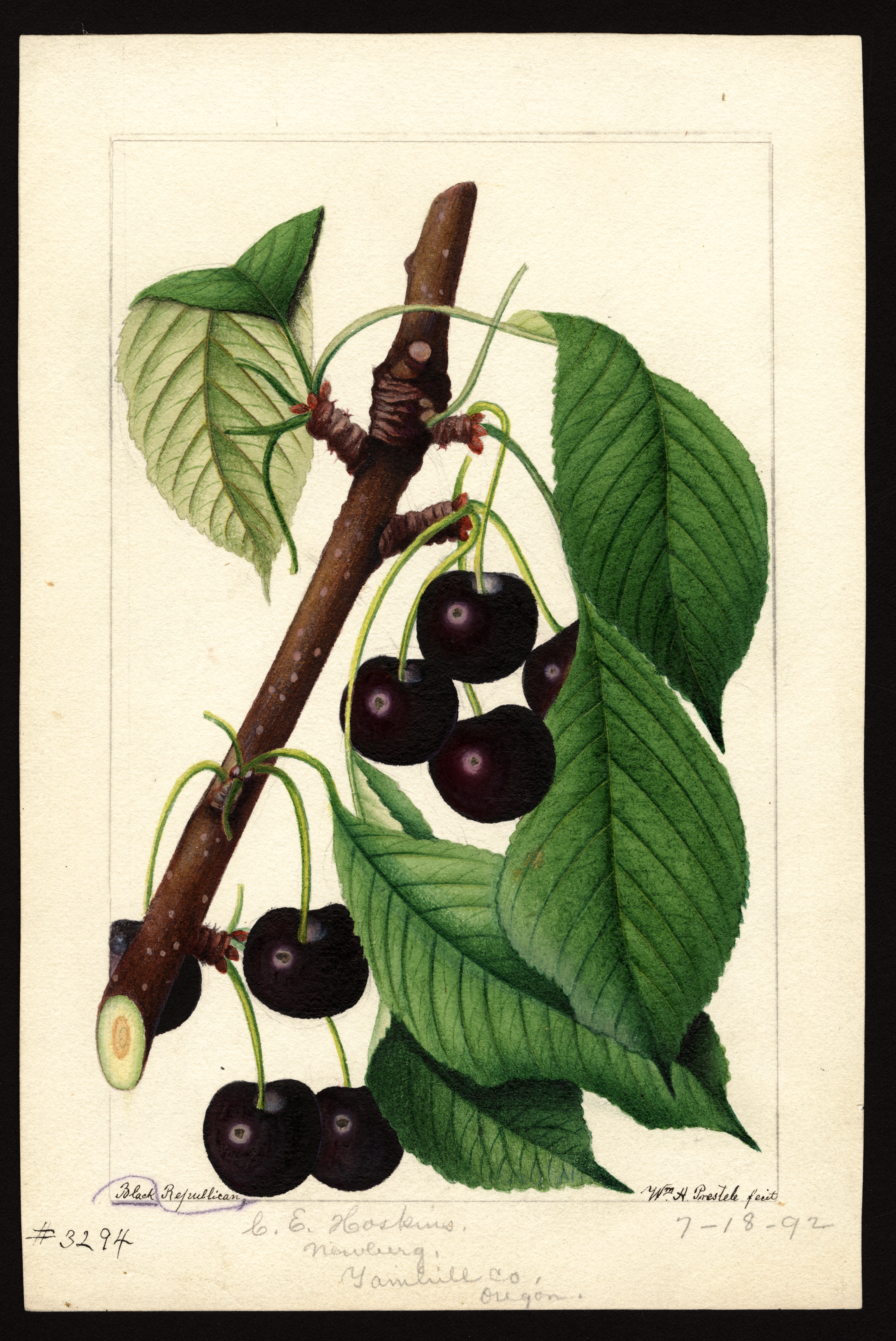 Image of the Black Republican variety of cherries (scientific name: Prunus avium), with this specimen originating in Newberg, Yamhill County, Oregon, United States. Source: U.S. Department of Agriculture Pomological Watercolor Collection. Rare and Special Collections, National Agricultural Library, Beltsville, MD 20705.